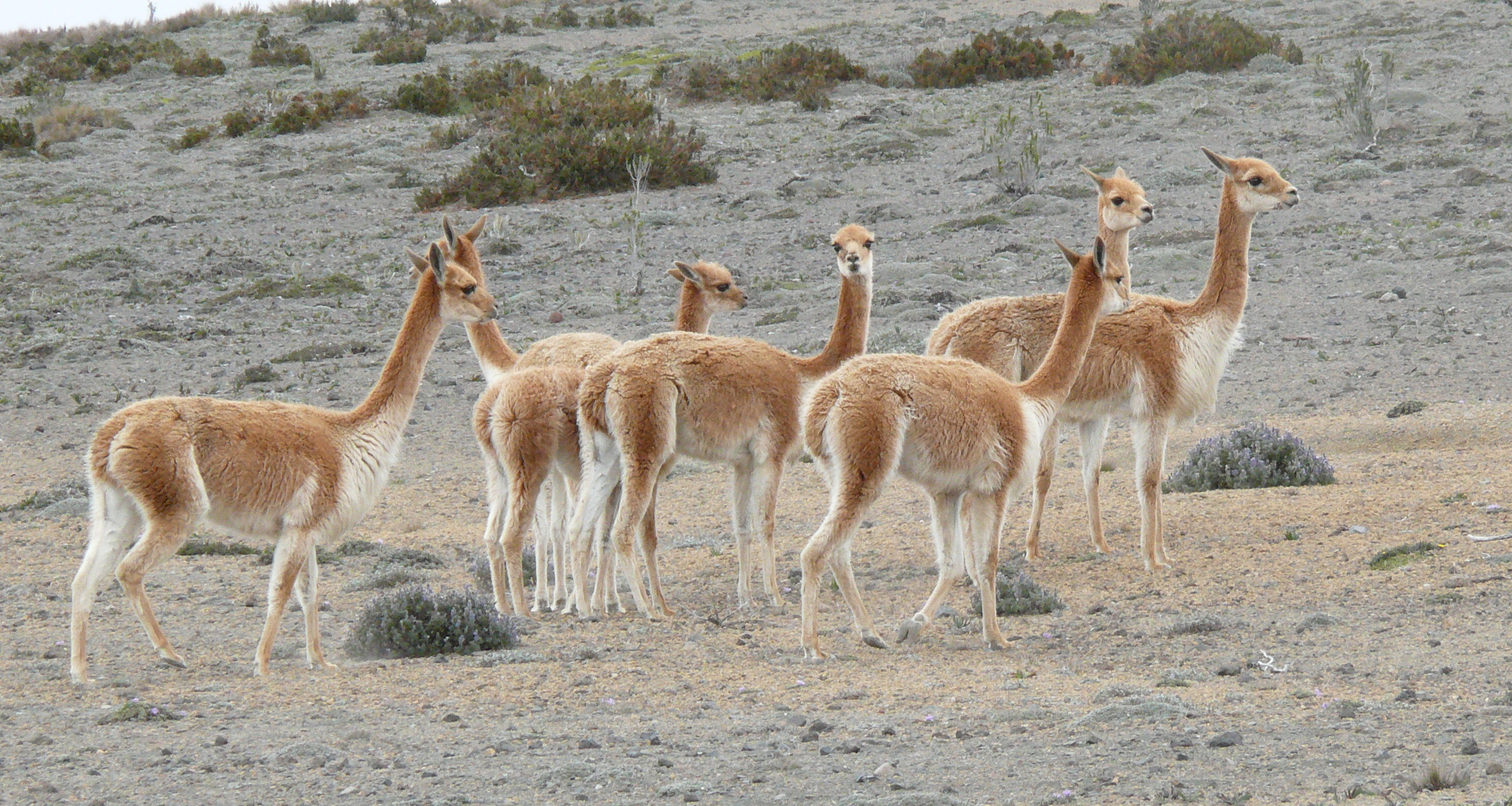 Vicuñas (Vicugna vicugna)